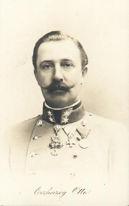 Archduke Otto Franz of Austria 1865-1906, brother of Franz Ferdinand, father of Emperor Karl I (IV) of Austria-Hungary